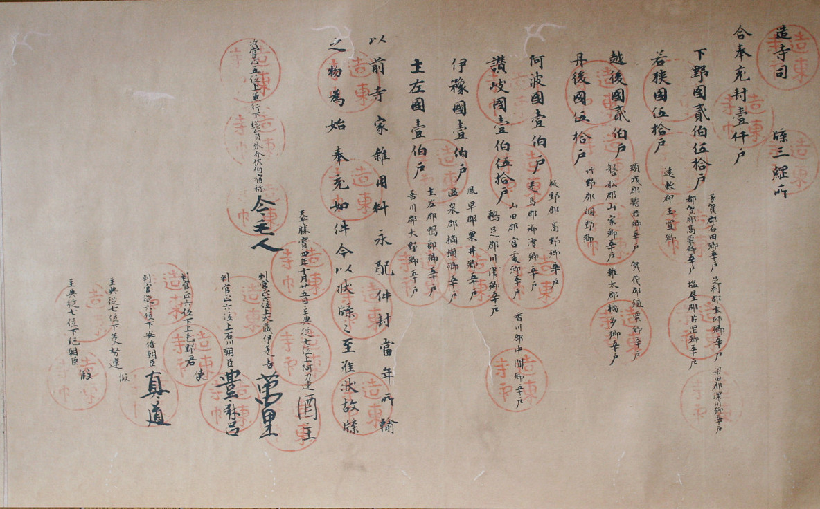 Todaiji temple Document Manuscript. ACE752, In Shosoin Collection in Nara, administrated to Imperial Agency, Japan